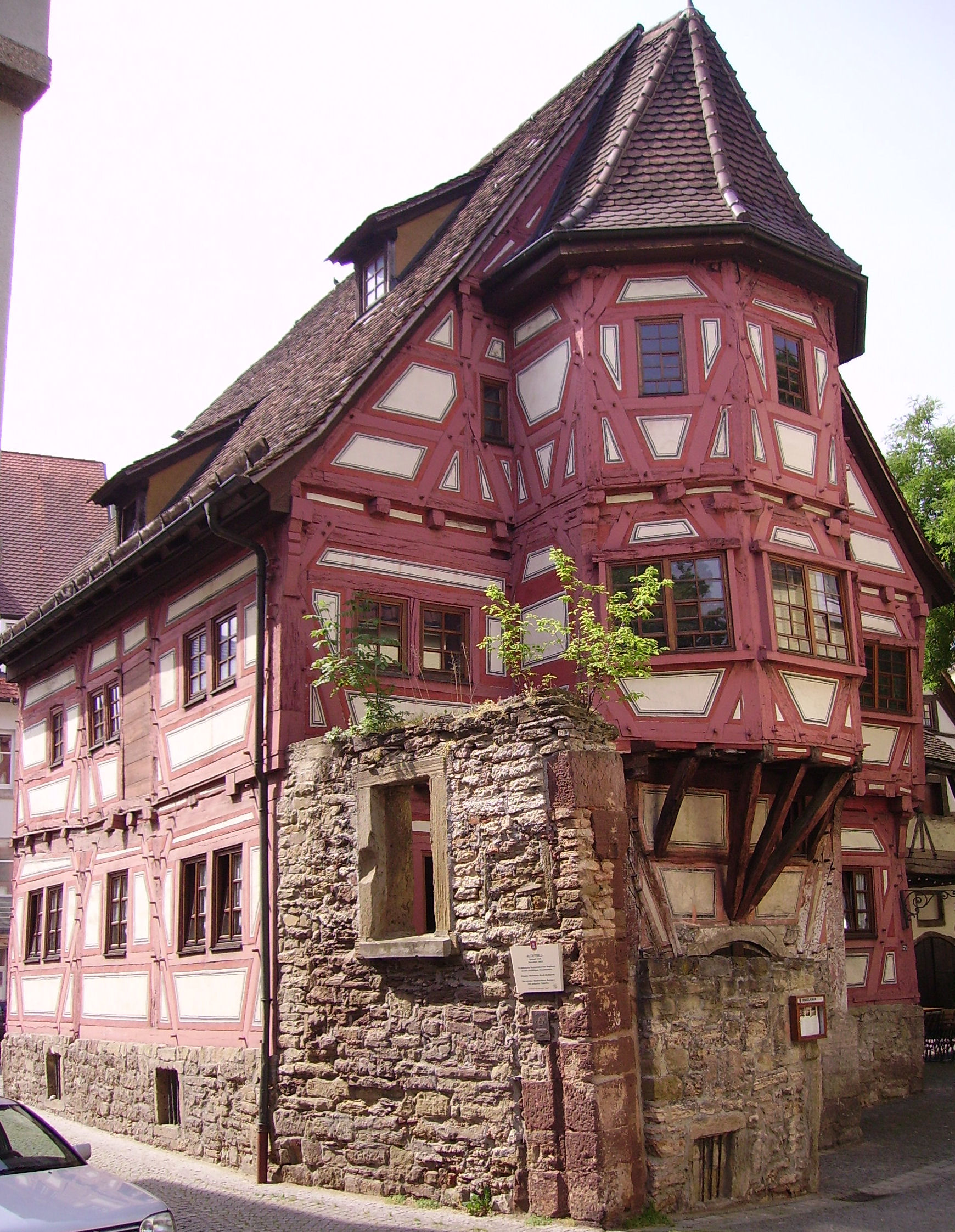 old half timbered house Bad Cannstatt, part of Stuttgart, Germany